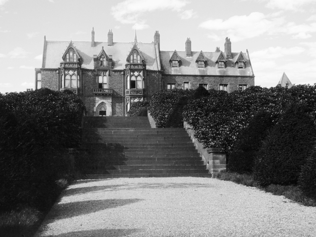 Anderton Hall, Lancashire, England, C 1920